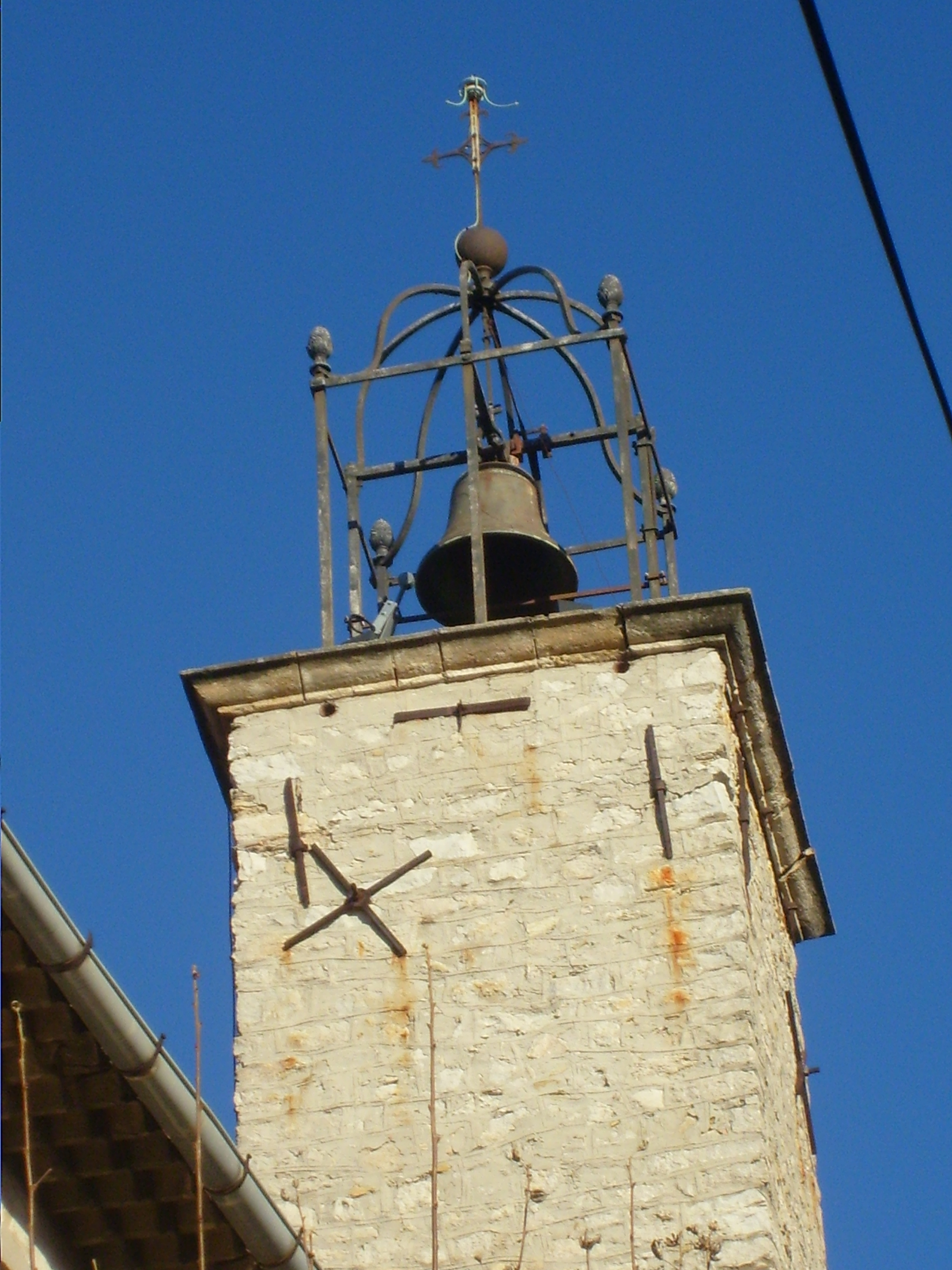 Bell tower in the hilltop village of La Cadiere d'Azur, Provence, France